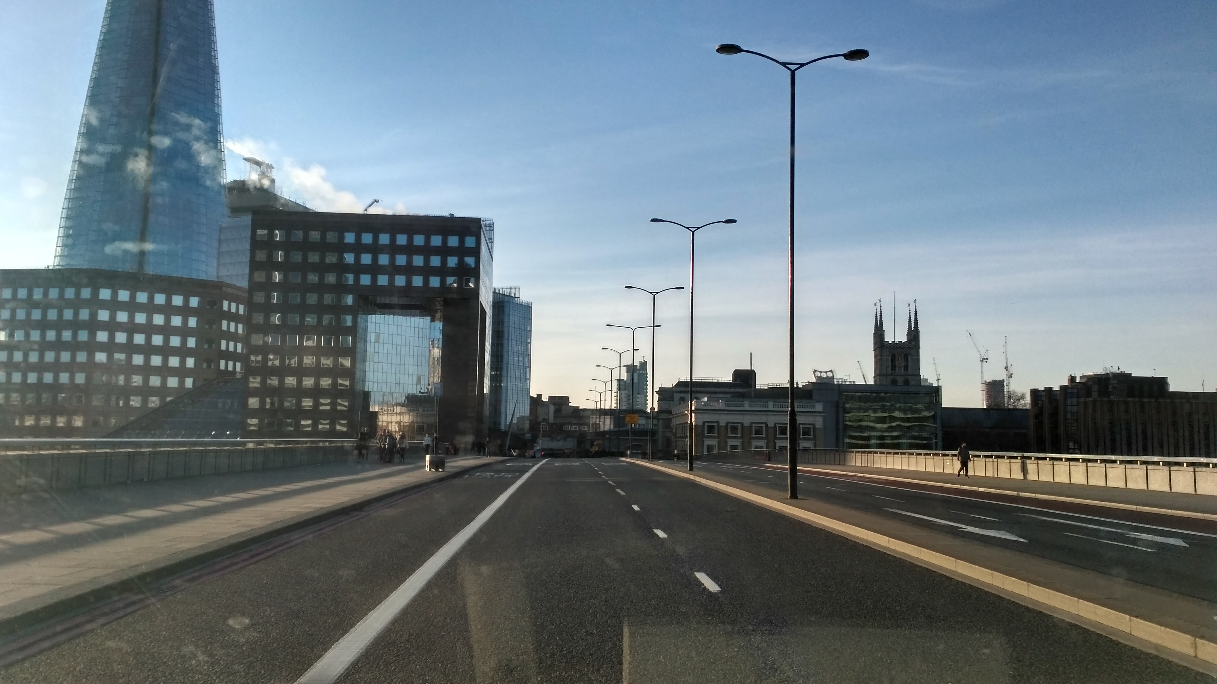 London Bridge facing towards The Shard